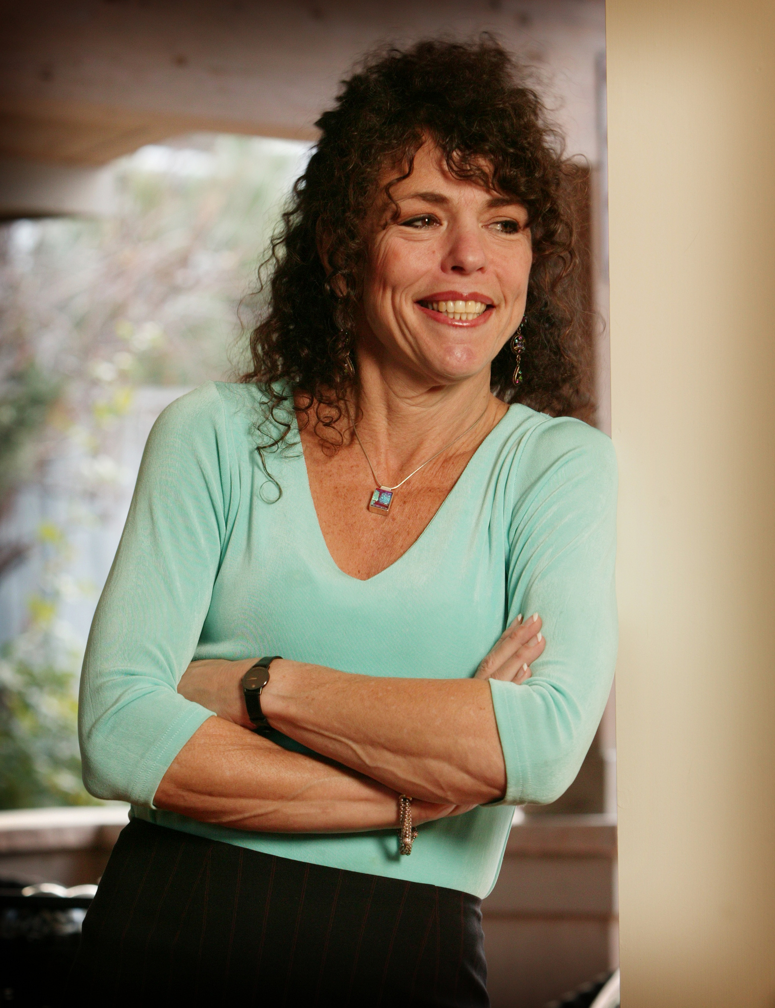 This photo of Michele Weiner-Davis was taken with a Canon EOS-1DS camera on November 16, 2007.